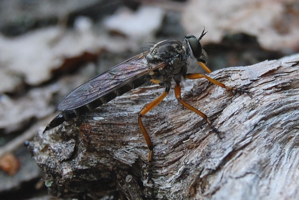 Neomochtherus pallipes, female